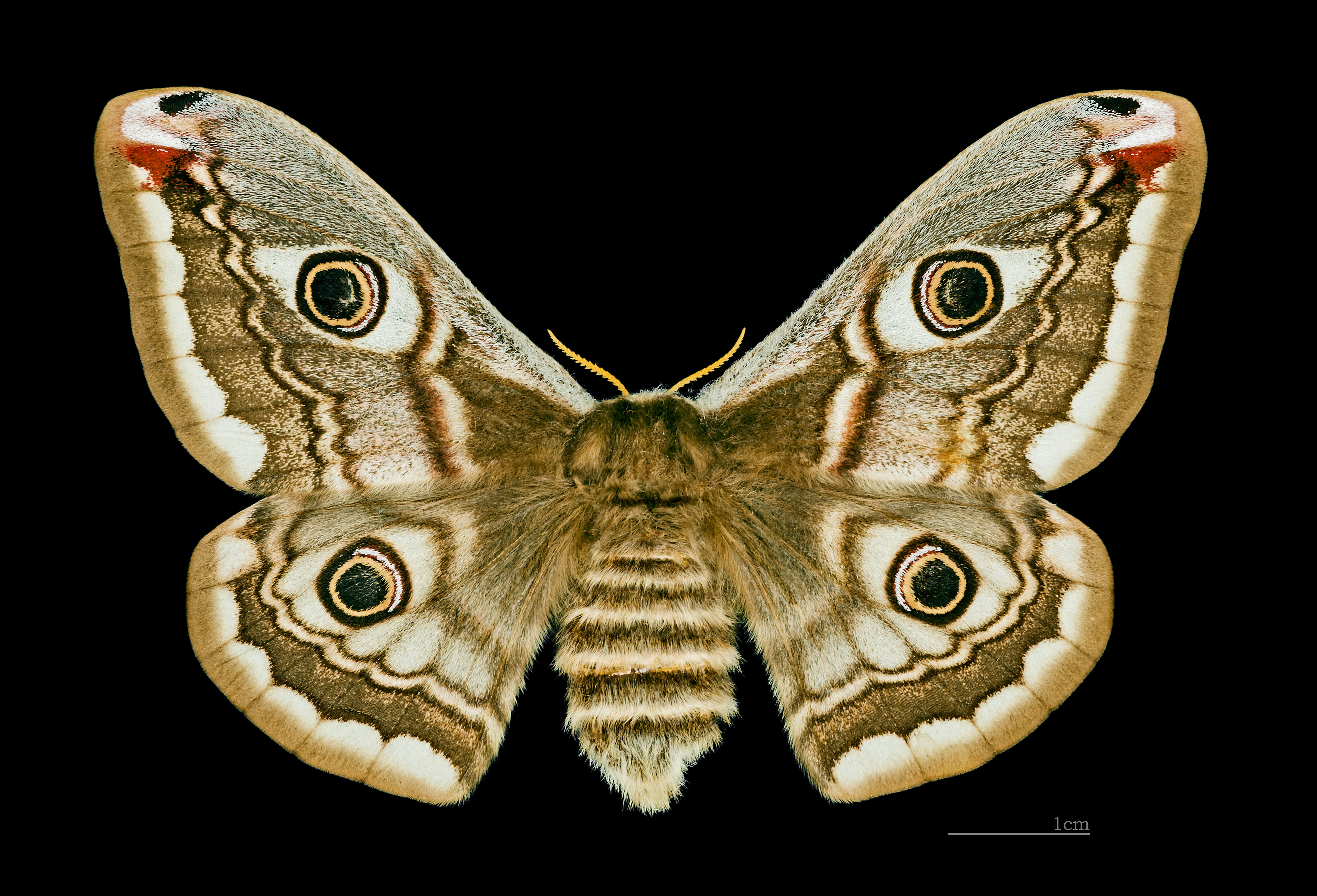 Small Emperor Moth - Dorsal side